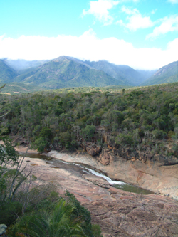 Landscape view of Andohahela National Park, Madagascar